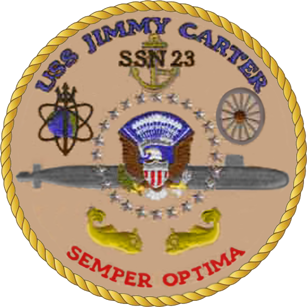 Emblem of the USS Jimmy Carter SSN-23